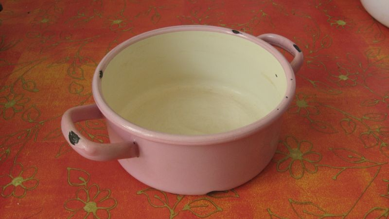 Depiction of a Reindl, an enameled recipient for the preparation, i.a., of Kärntner Reindling